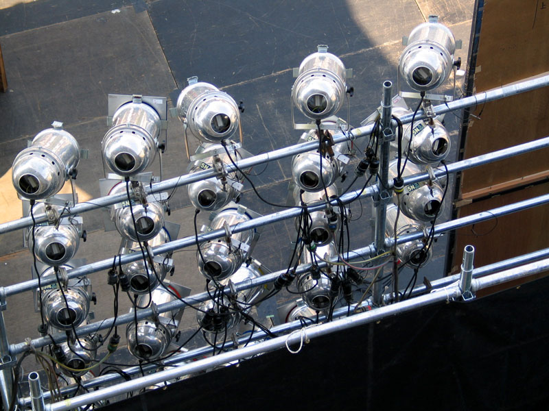 Stage lights at Mie University Festival 2004